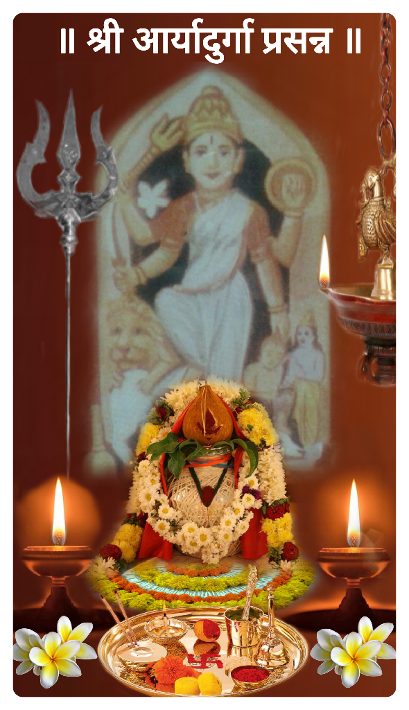 Mata